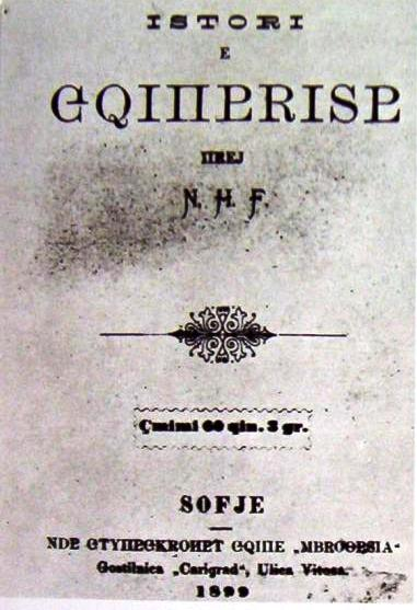 Cover book from Naim Frashëri